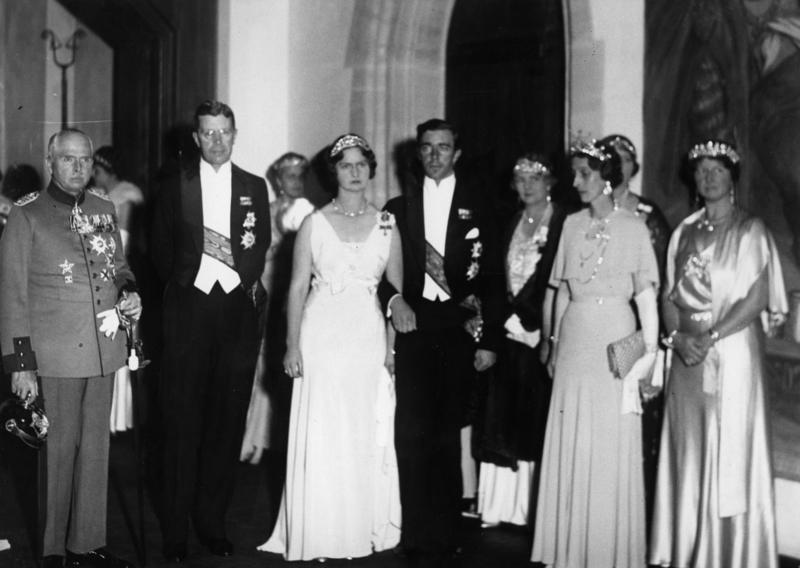 Most probably at the Veste Coburg. (See discussion here, in Swedish).